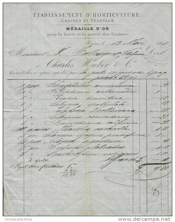 facture charles huber et compagnie 1868